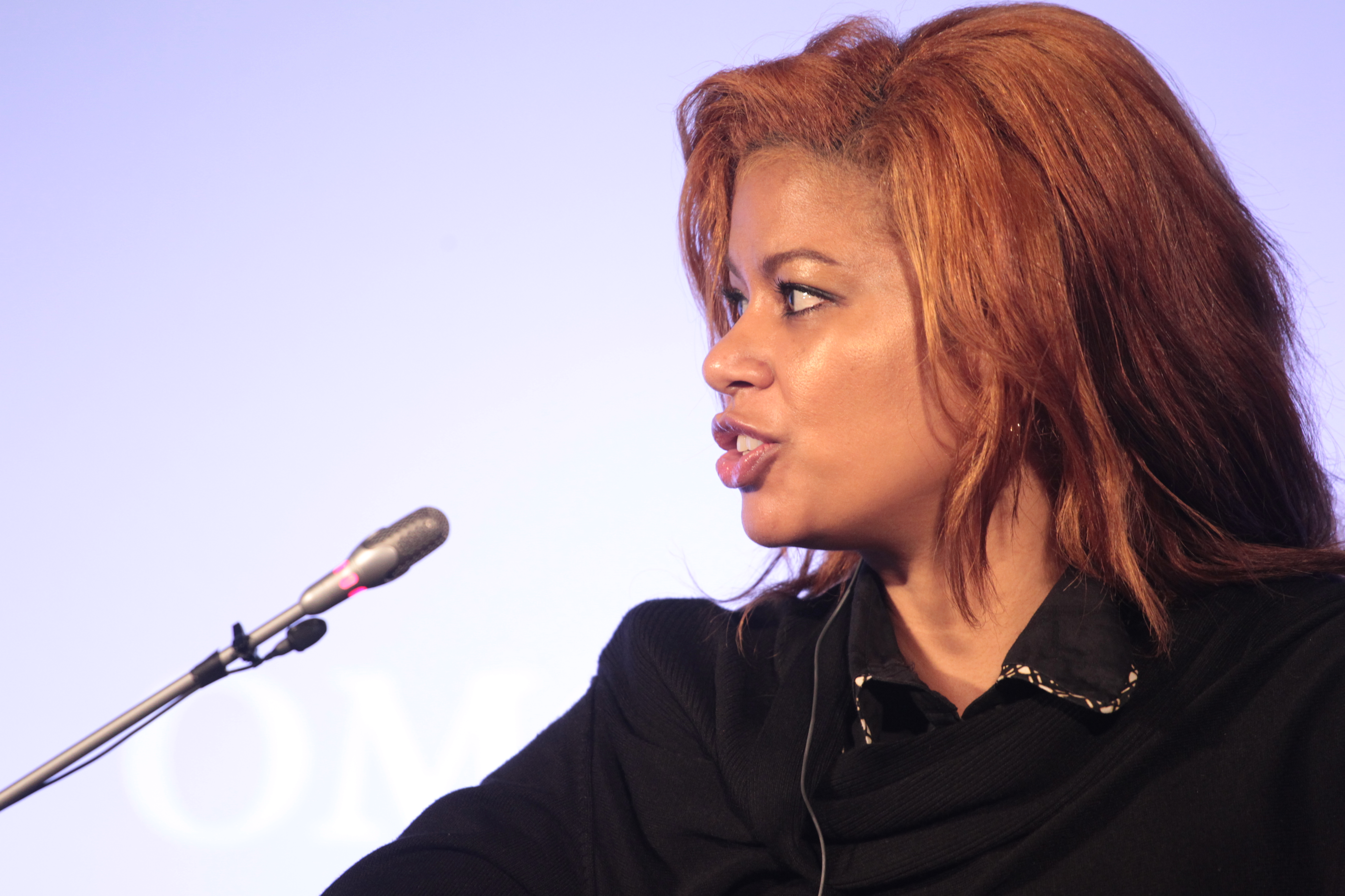 WTO Public Forum 2014, Day 2: PLENARY DEBATE What trade means for Africa